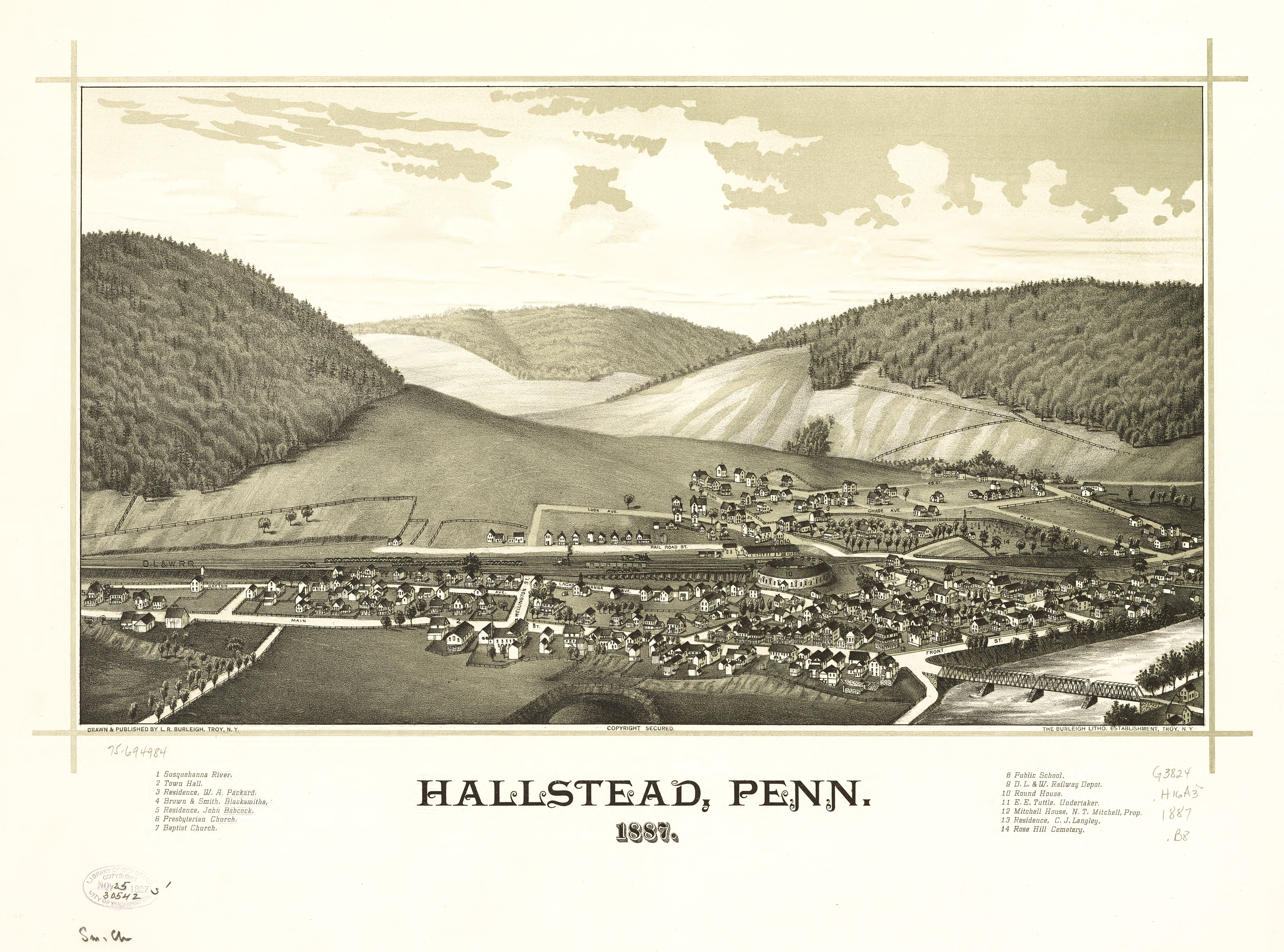 Perspective map not drawn to scale. Bird's-eye-view. LC Panoramic maps (2nd ed.), 785 Available also through the Library of Congress Web site as a raster image. Indexed for points of interest. AACR2